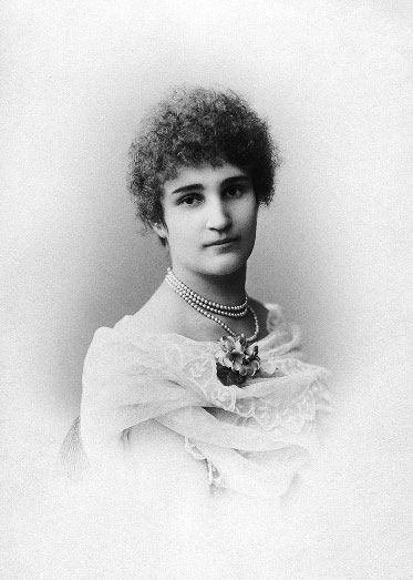 Russian poet Mirrah Locvitskaya